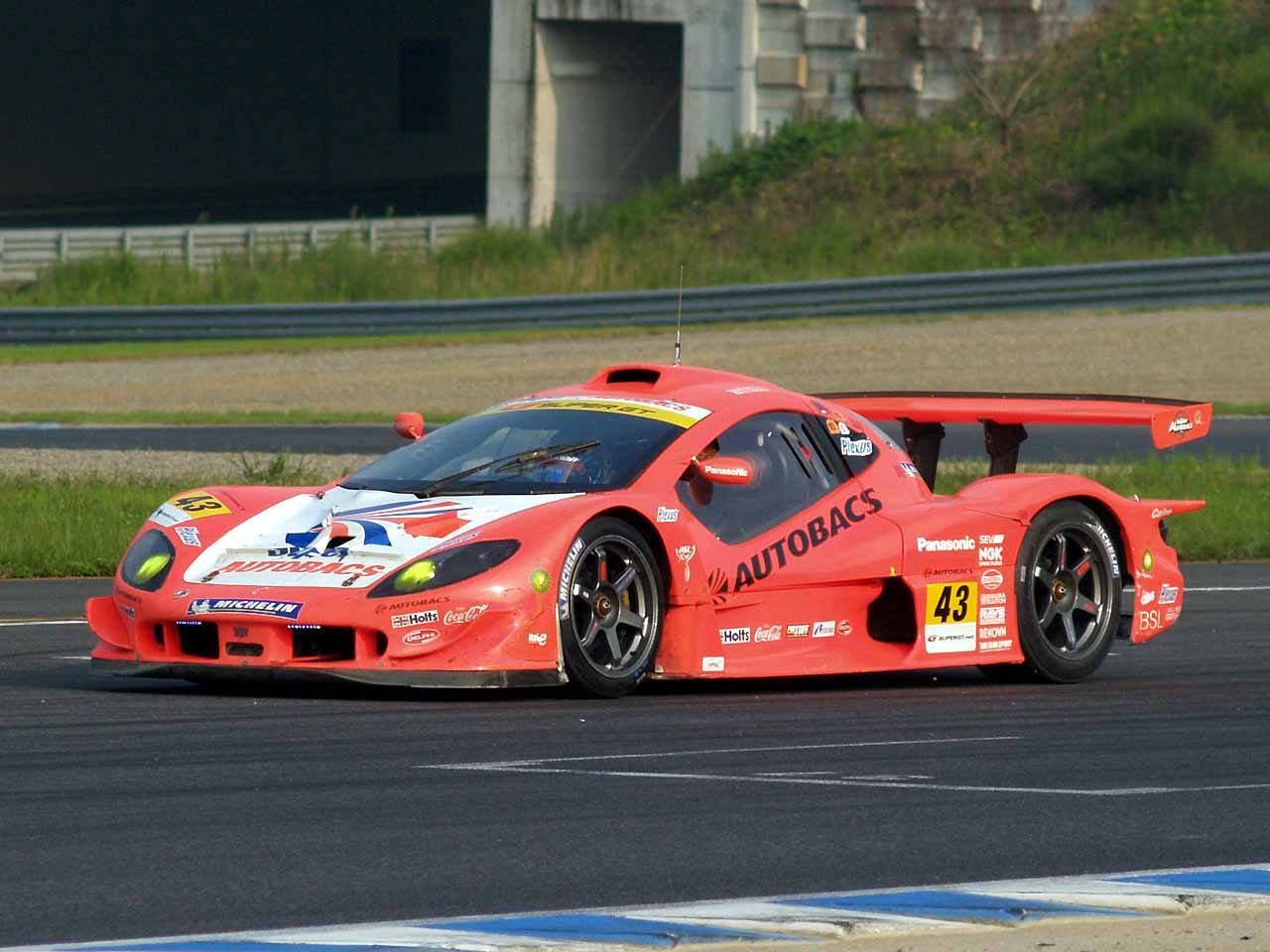 Autobacs Racing Team Aguri(ARTA) Garaiya in Super GT Championship. Driver: Morio Nitta and Shin-ichi Takagi Place: Twin Ring Motegi: Tochigi, Japan